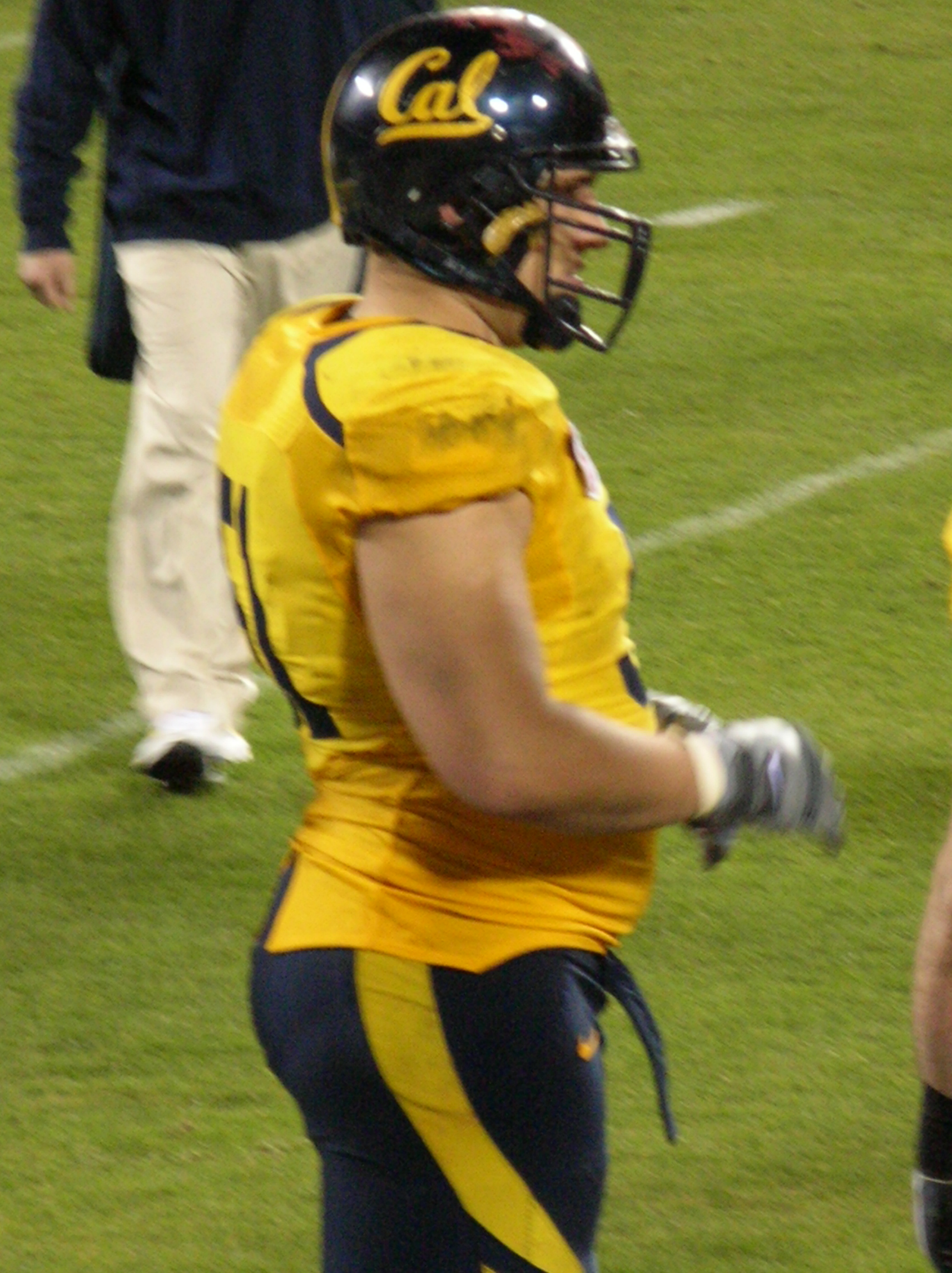 Cal center Alex Mack at the 2008 Emerald Bowl between the California Golden Bears and Miami Hurricanes. The Golden Bears won 24-17.